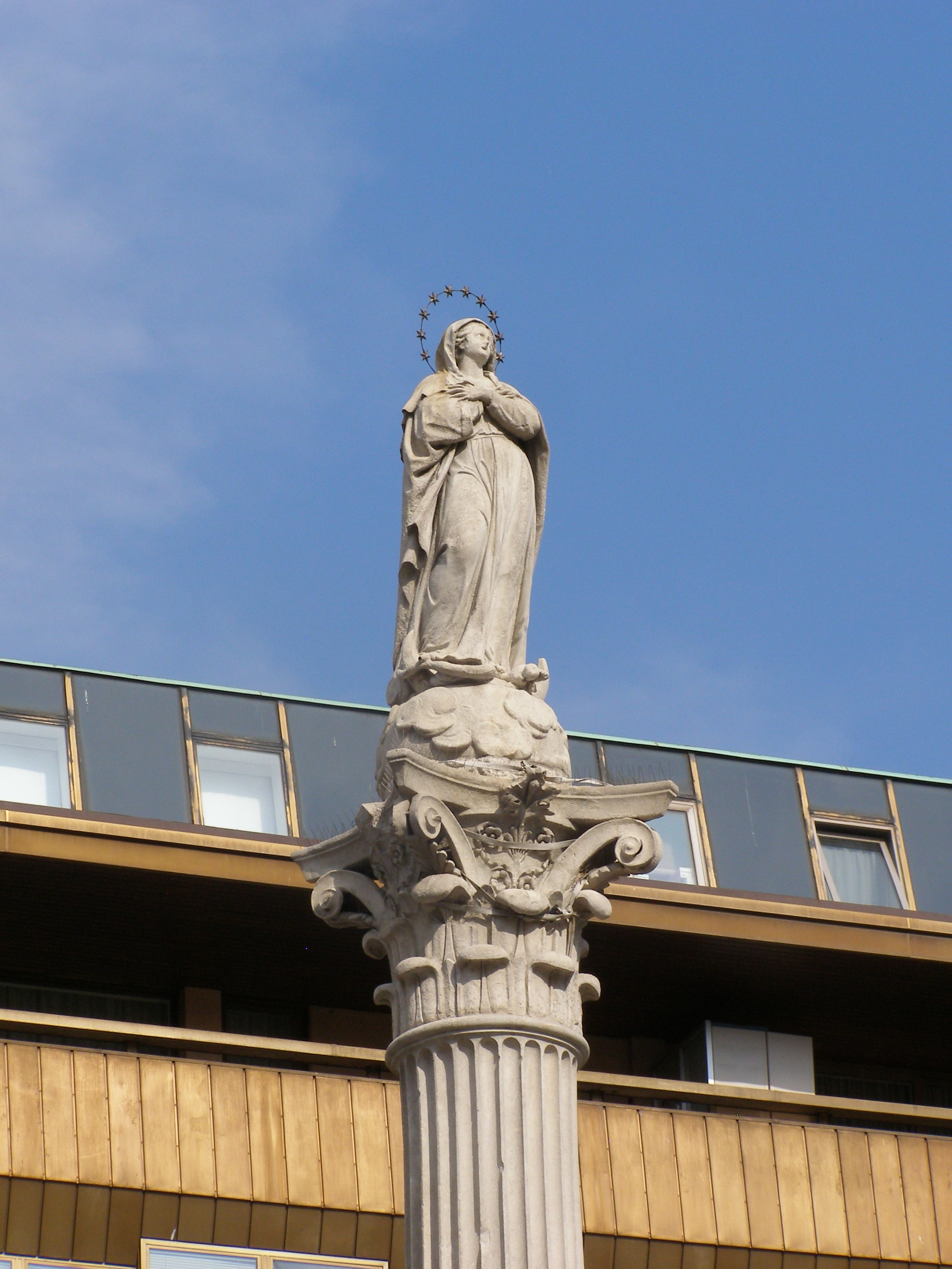 Padua - Piazza Garibaldi